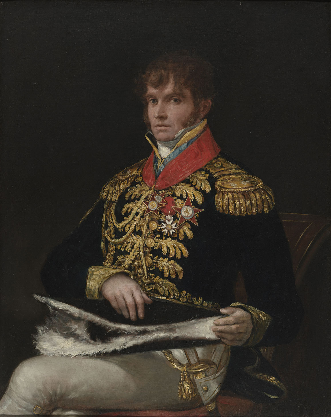 Portrait of Nicolas Philippe Guye